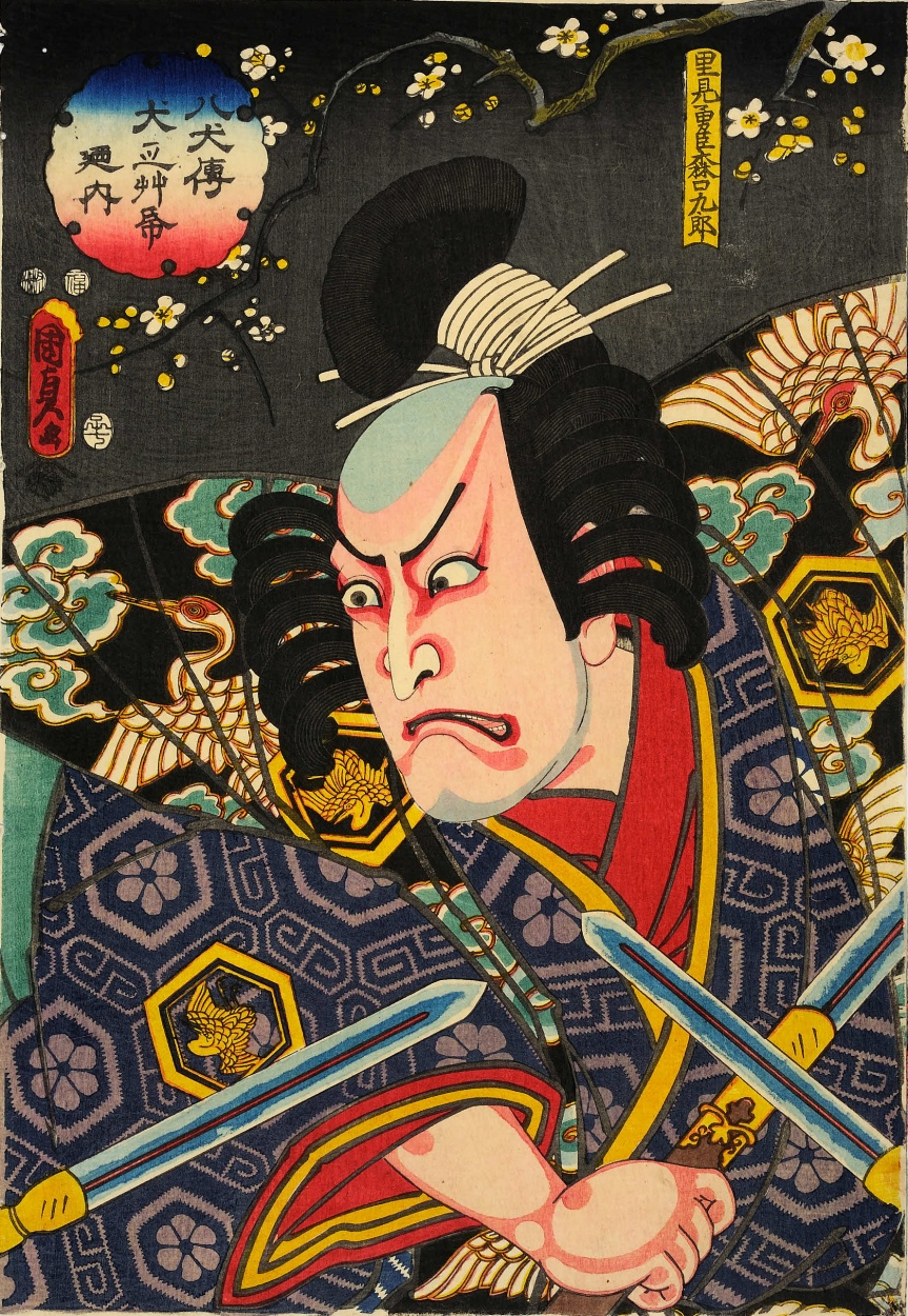 Actor Nakamura Tamasuke I (Nakamura Utaemon III) as Moriguchi Kurō, a Valiant Retainer of Satomi (Satomi yūshin), from the series The Book of the Eight Dog Heroes (Hakkenden inu no sōshi no uchi)